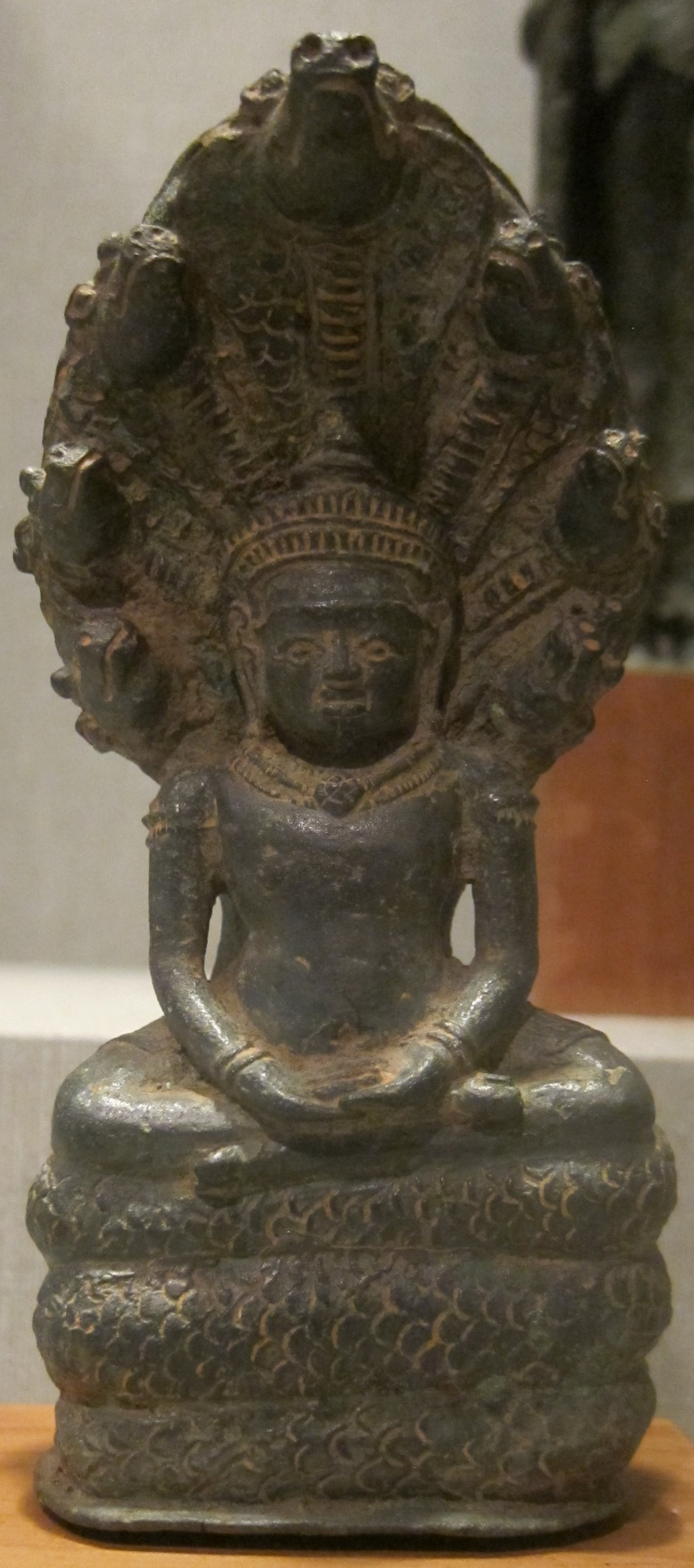 Buddha Mucilinda, Cambodia, Bayon period, late 12th early 13th century, bronze, Honolulu Museum of Art